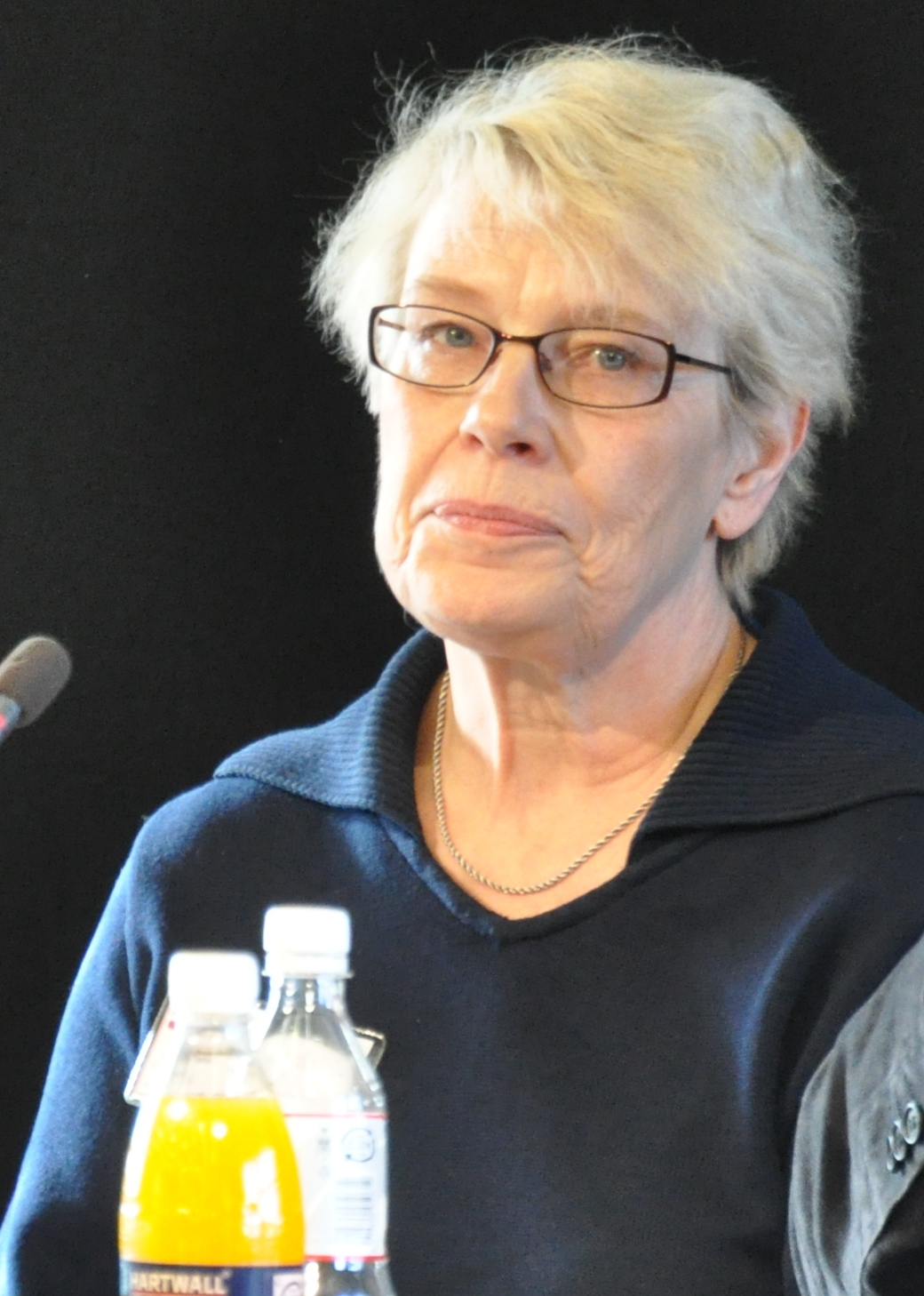 Finnish writer Tuula-Liina Varis at the Turku Book Fair 2009.